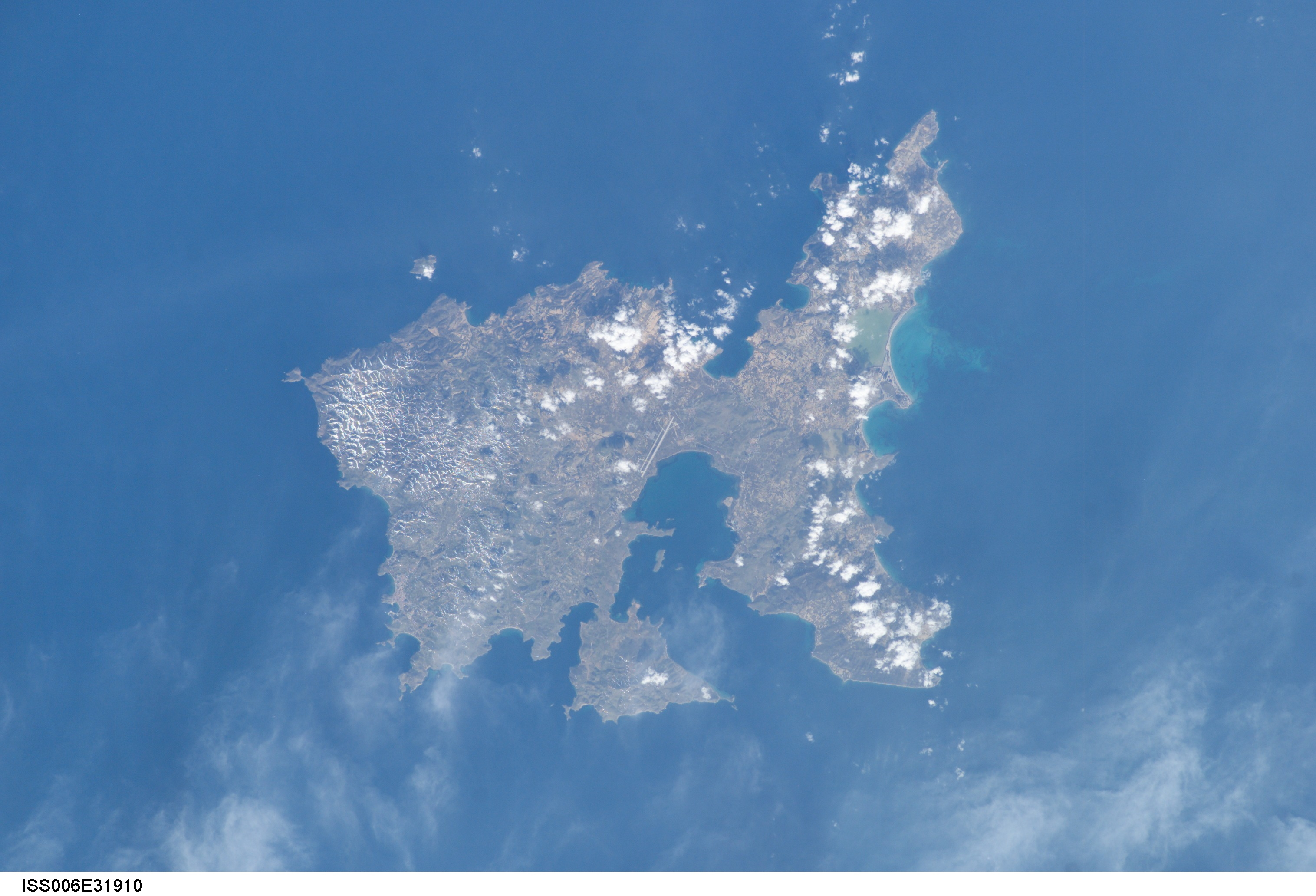 Greek Island Moni from space